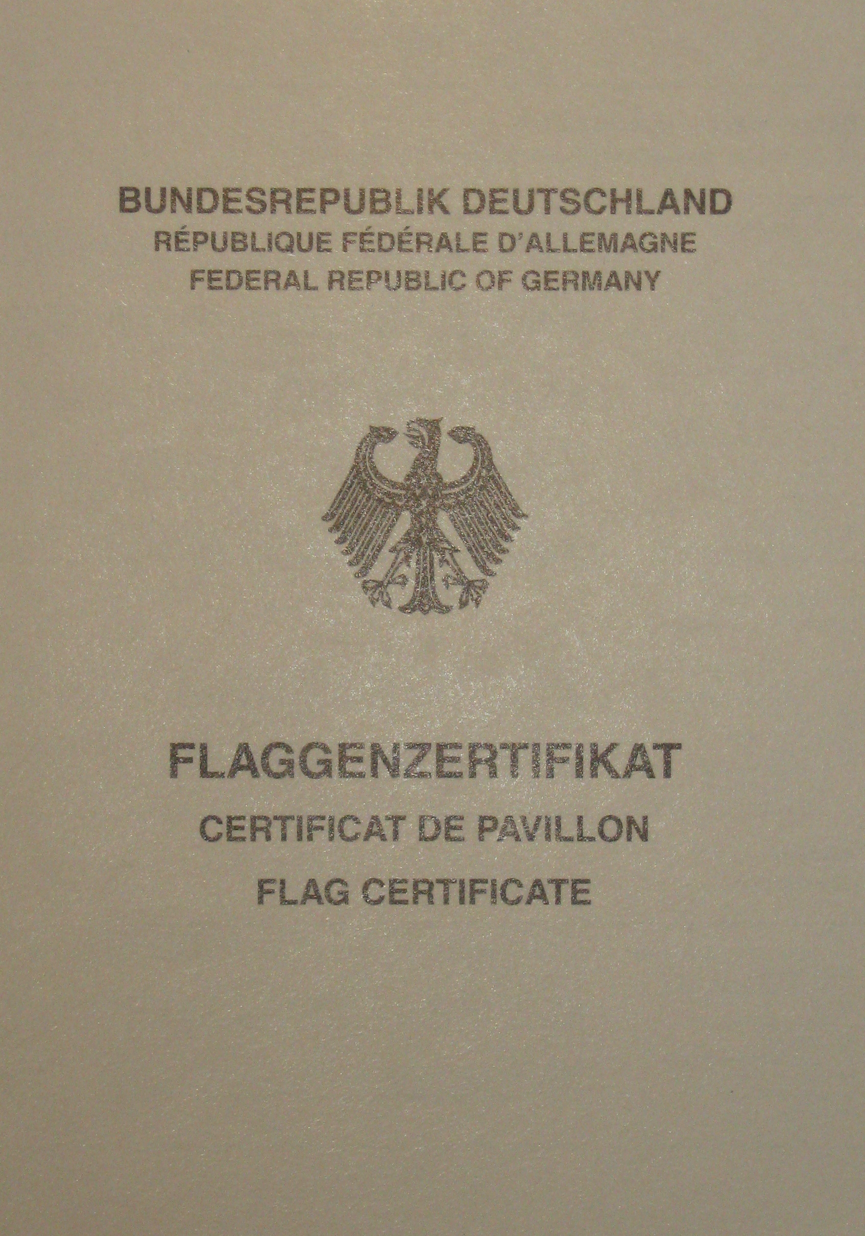 Flaggenzertifikat